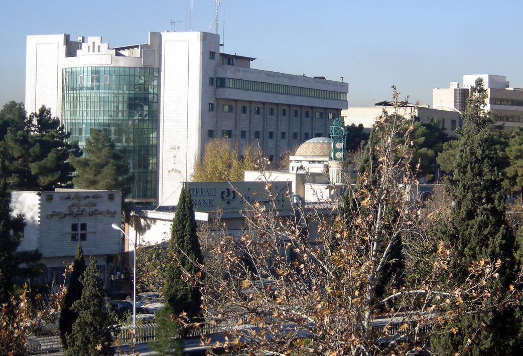 Tehran University of Medical Sciences Heart Center